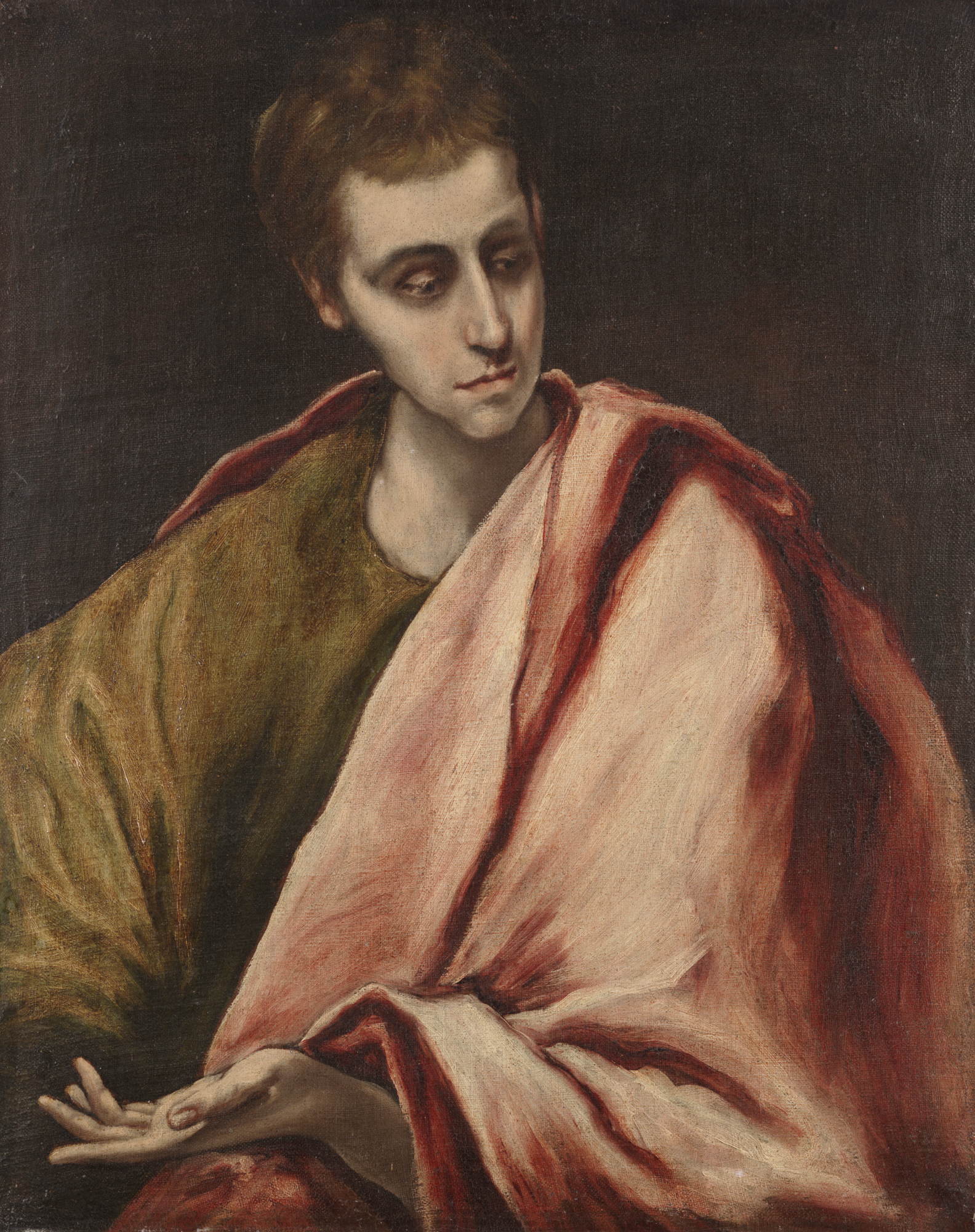 Painting of St. John by El Greco at the Dallas Museum of Art